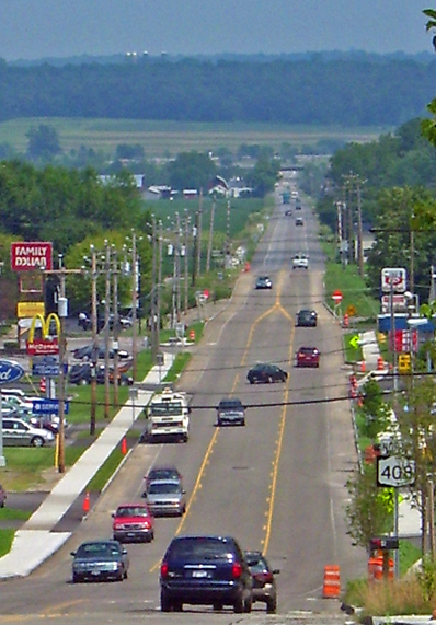 Photographed by Daniel Case 2006-07-31